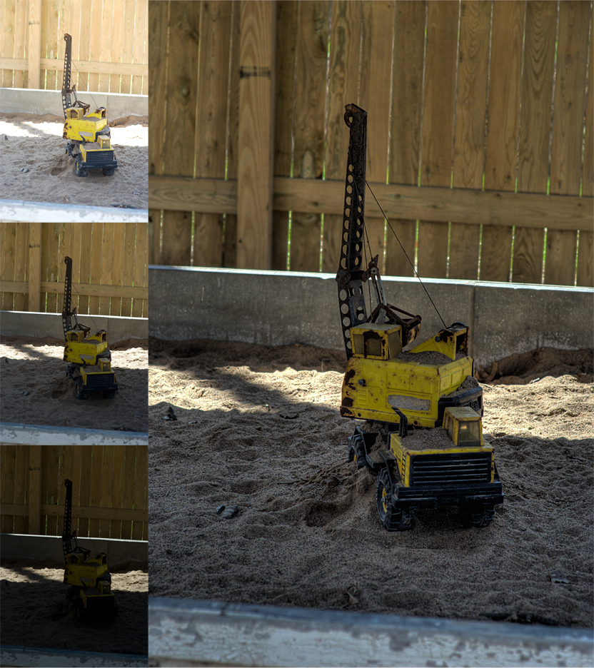 This is an example of taking three different exposures and combining them into one image that contains a great amount of detail. Notice this image retains it natural look, feel and color while gaining the benefits of HDR Photography.